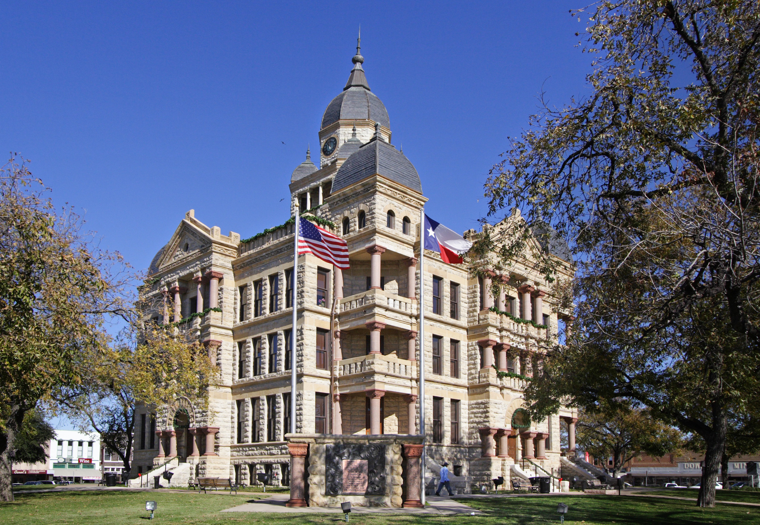 The Denton County, Texas courthouse located at 33.2151° -97.1331°, Denton, Texas, United States. The Romanesque style structure was added to the National Register of Historic Places in 1977.